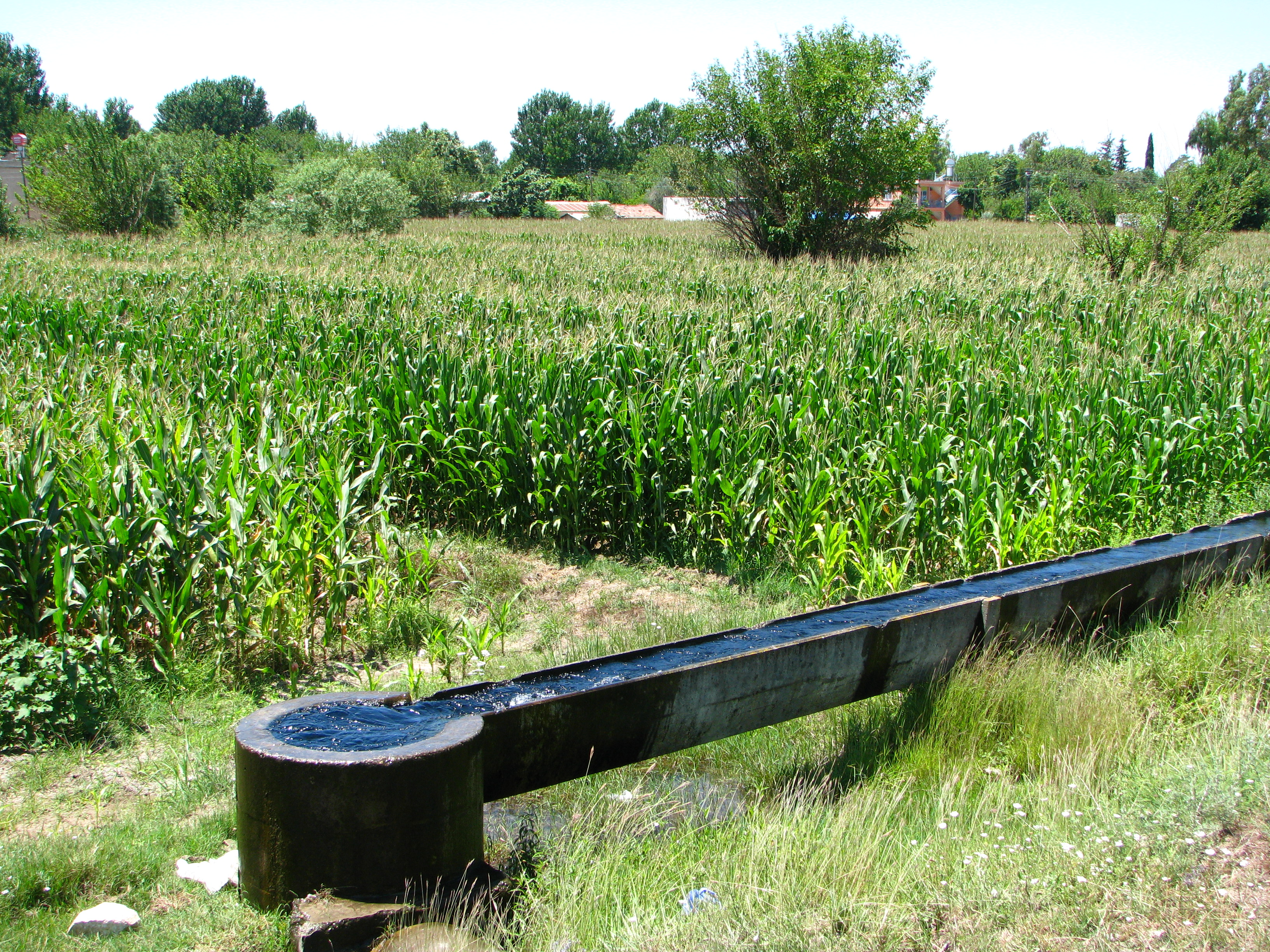 Irrigation aqueduct and fields with crops — in Osmaniye Province, southwestern Mediterranean Turkey.